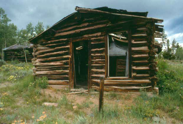 Miner's Delight, Wyoming, National Register of Historic Places listings in Fremont County